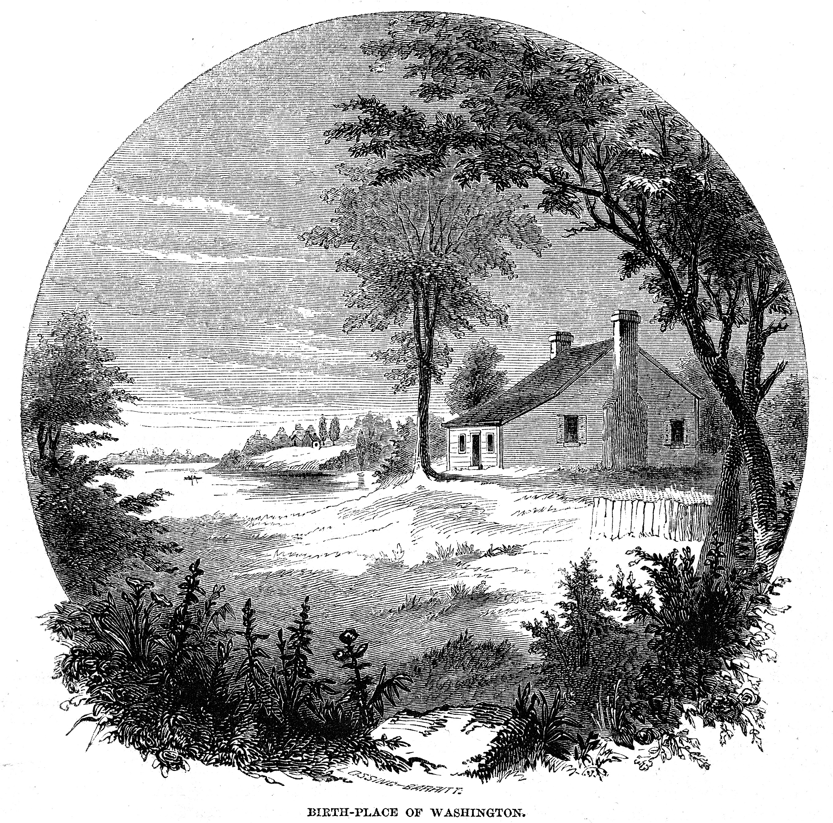 George Washington's birthplace (engraving) 1856